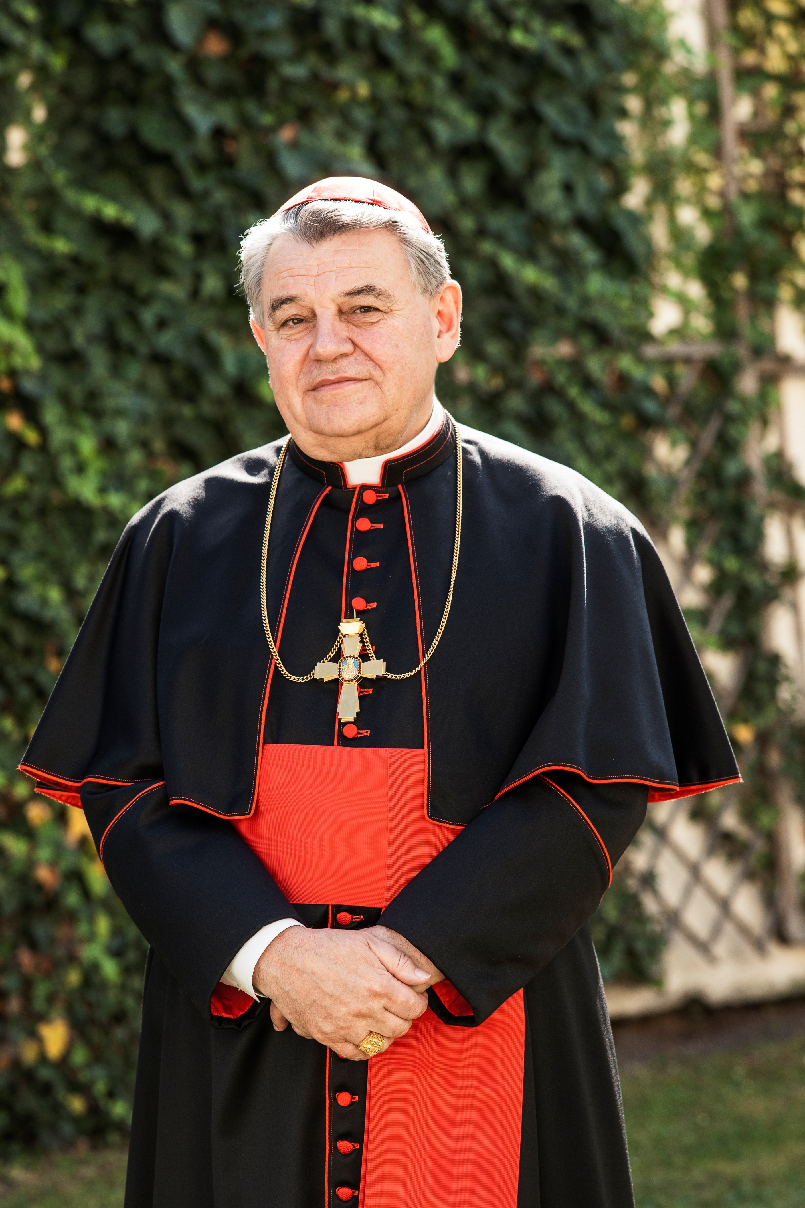 Kardinál Duka na zahradě Arcibiskupského paláce v Praze